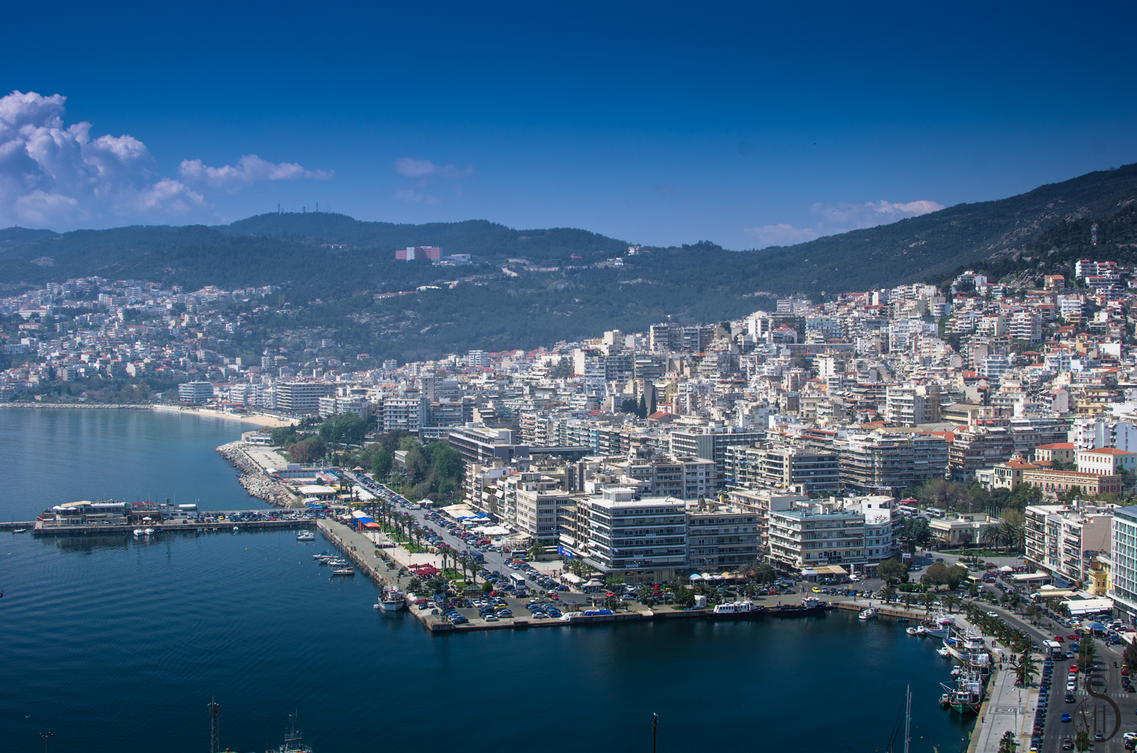 Panoramic view of Kavala, northern Greece